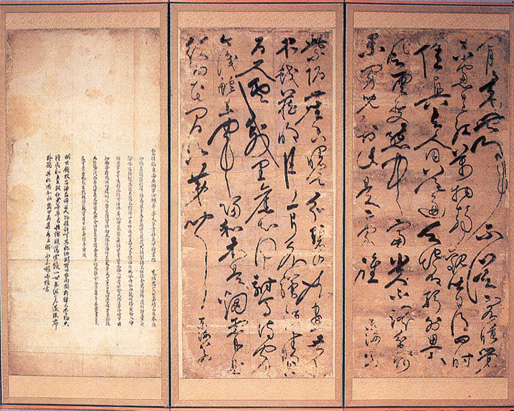 보물 제902호 권벌 종가 유묵 (權橃 宗家 遺墨)